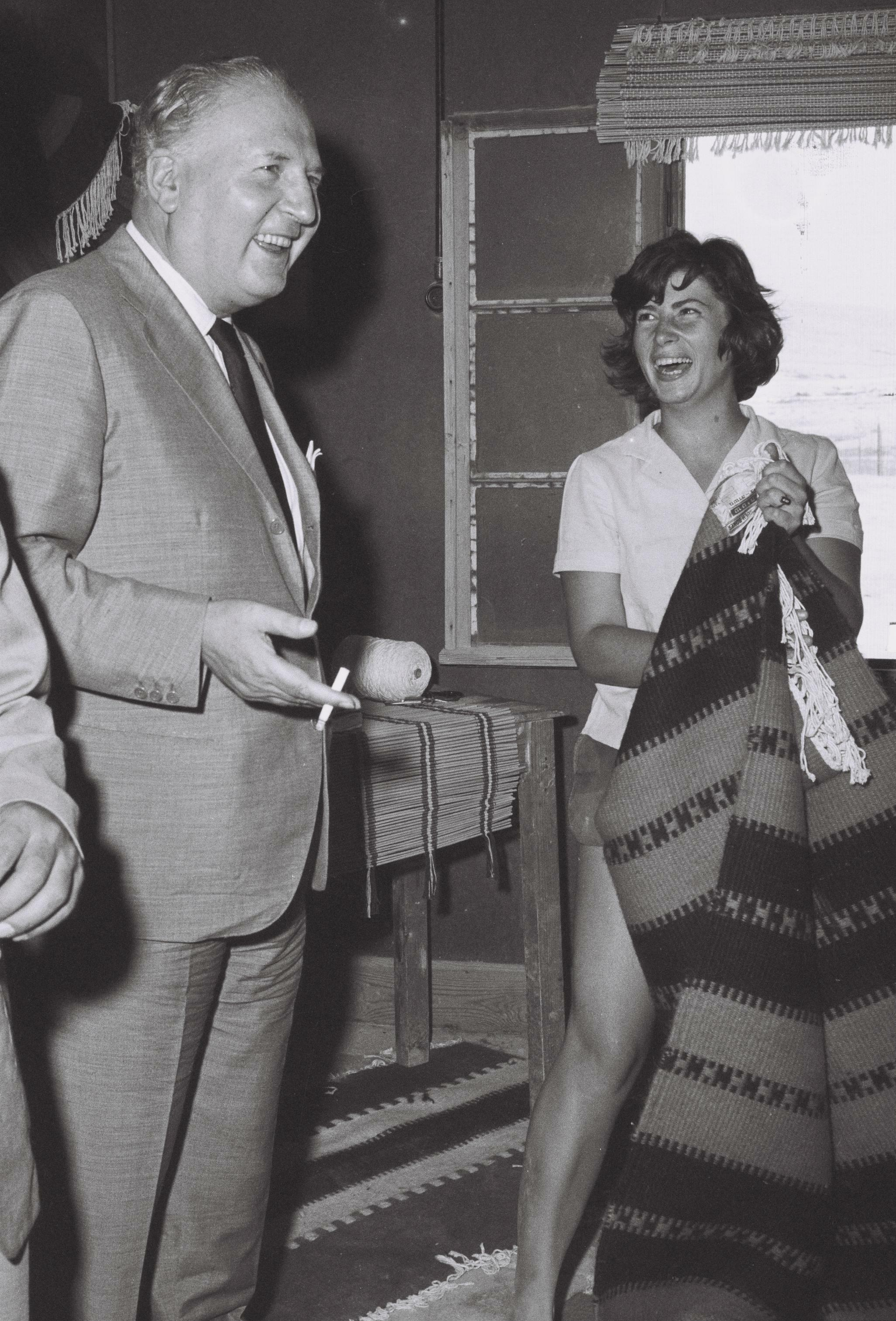 Randolfo Pacciardi during a visit to Kibbutz Sde Boker, Israel